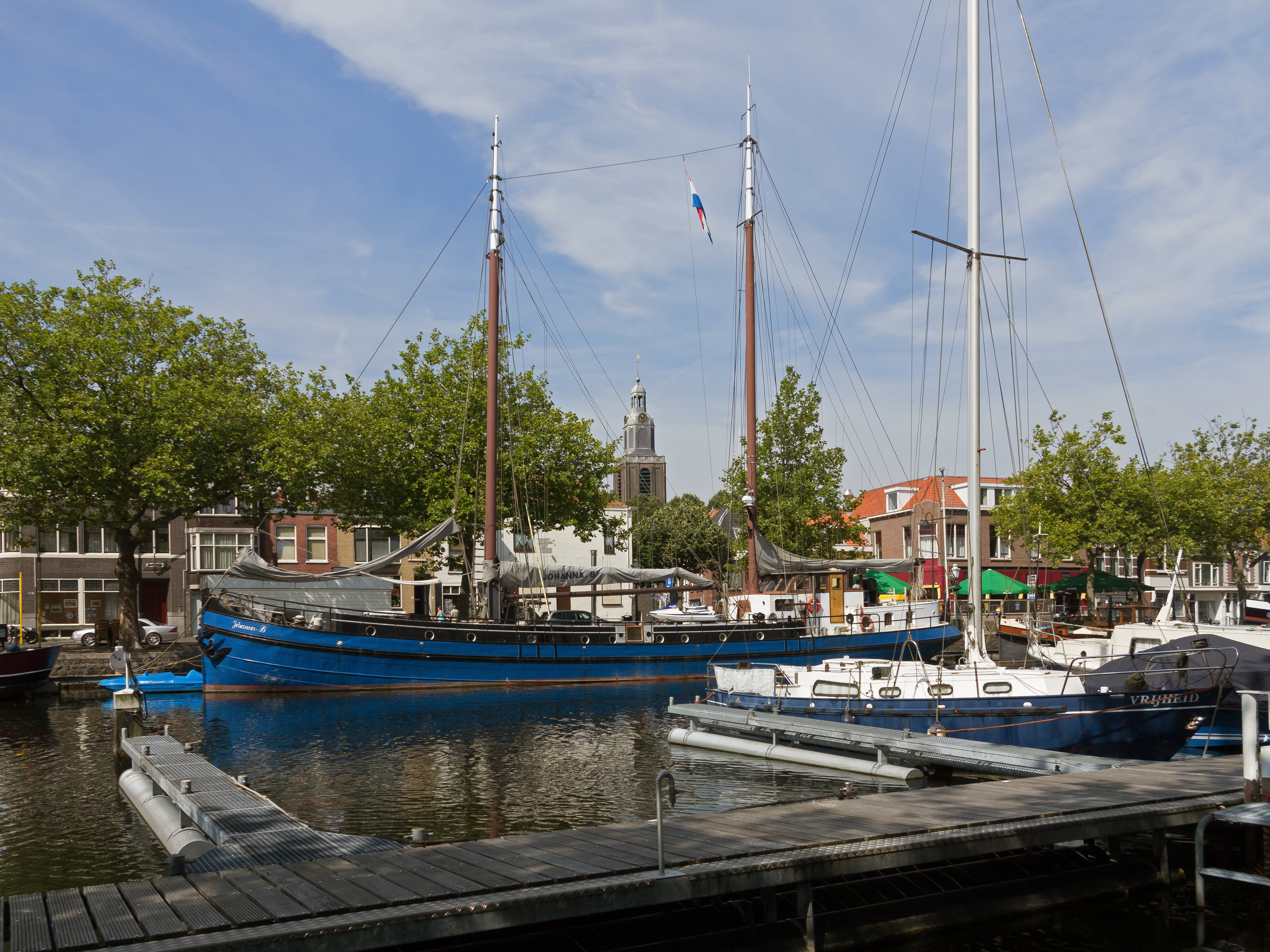 Vlaardingen, view to the port with churchtower (de Grote Kerk) in the background